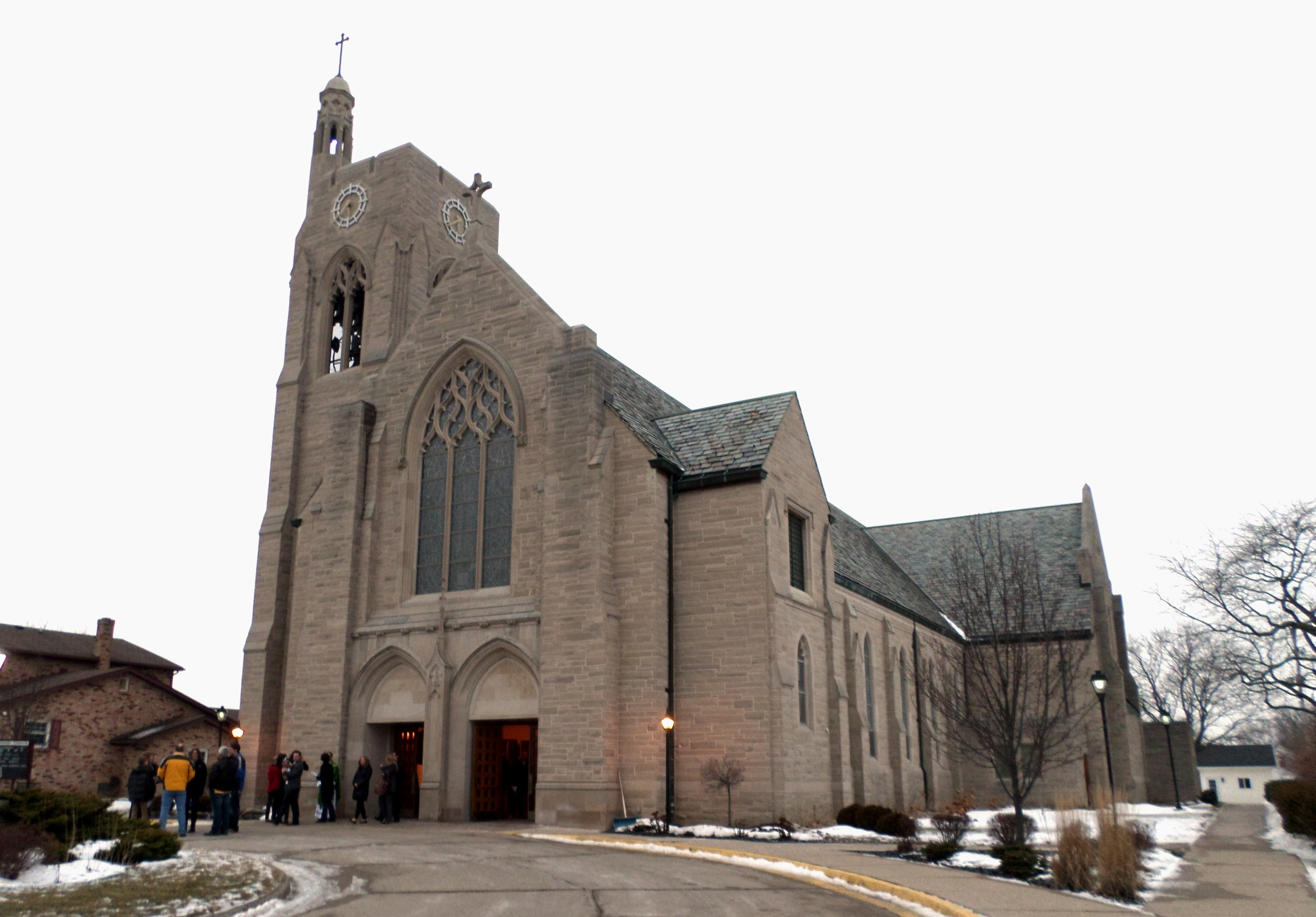 The St Mary's Catholic Church, located at 201 N Westphalia St, Westphalia, MI.